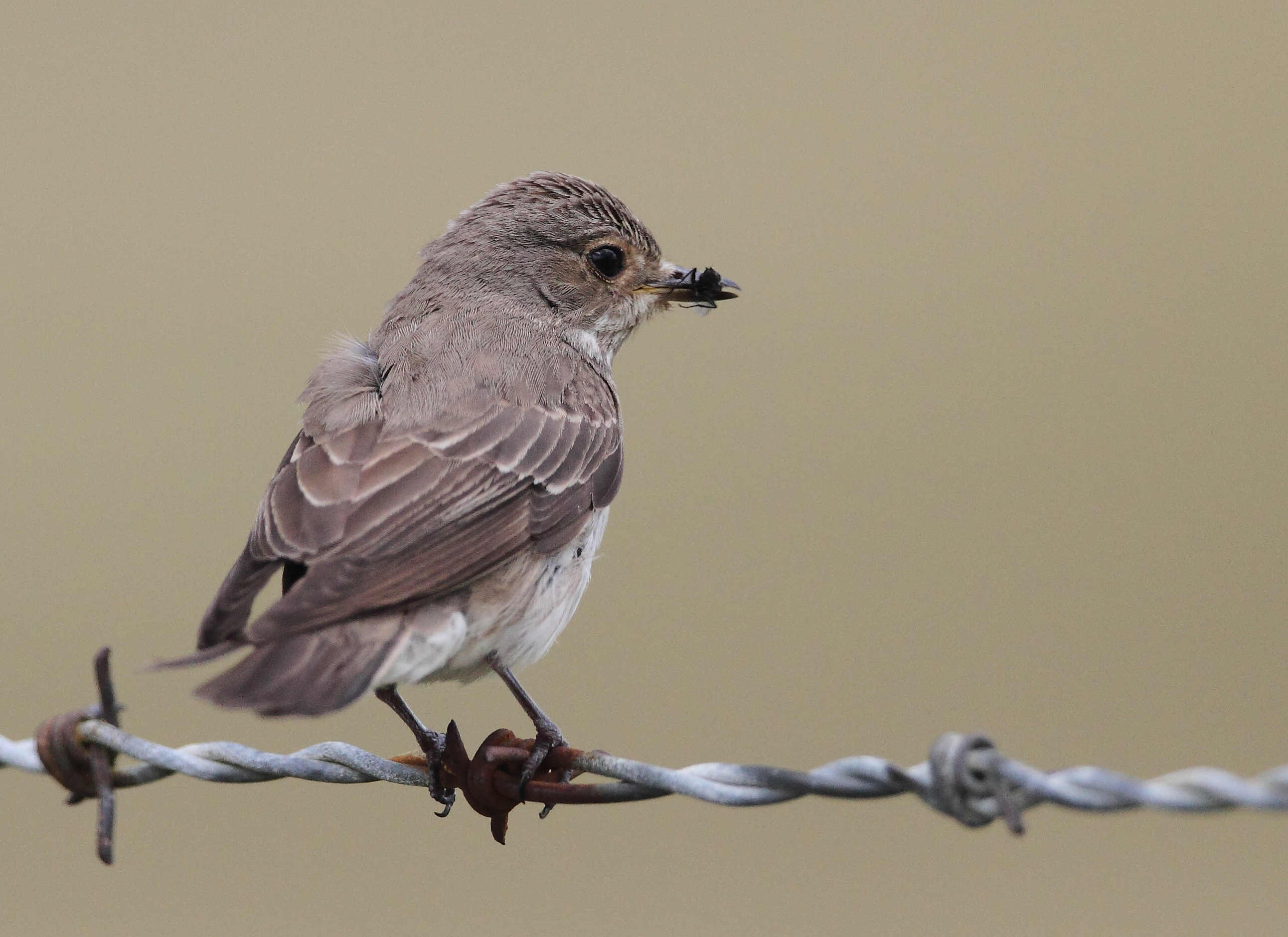 Red list status. I took this photograph in Pentrefoelas, North Wales.